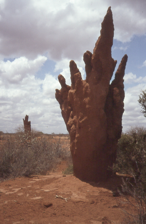 Photo: Bengt Olof ÅRADSSON Photo taken in Somalia